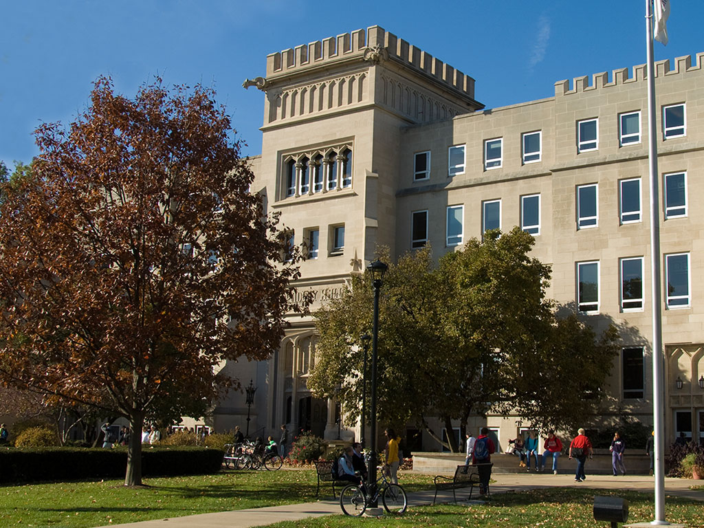 Bradley Hall, the main academic building of Bradley University, Peoria, Illinois. View from the university quad.